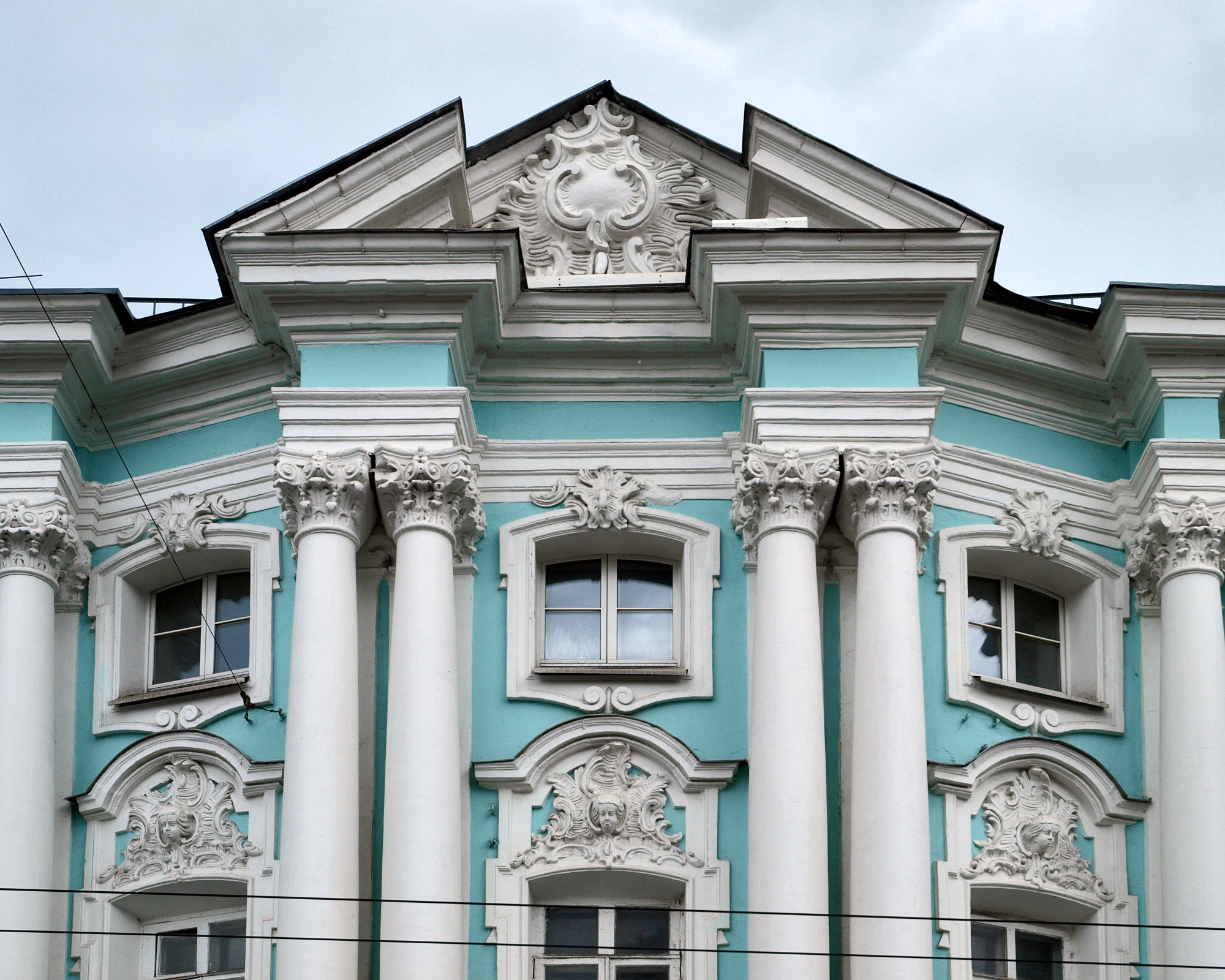 Moscow, 22 Pokrovka St - the Apraksin House (1760s).